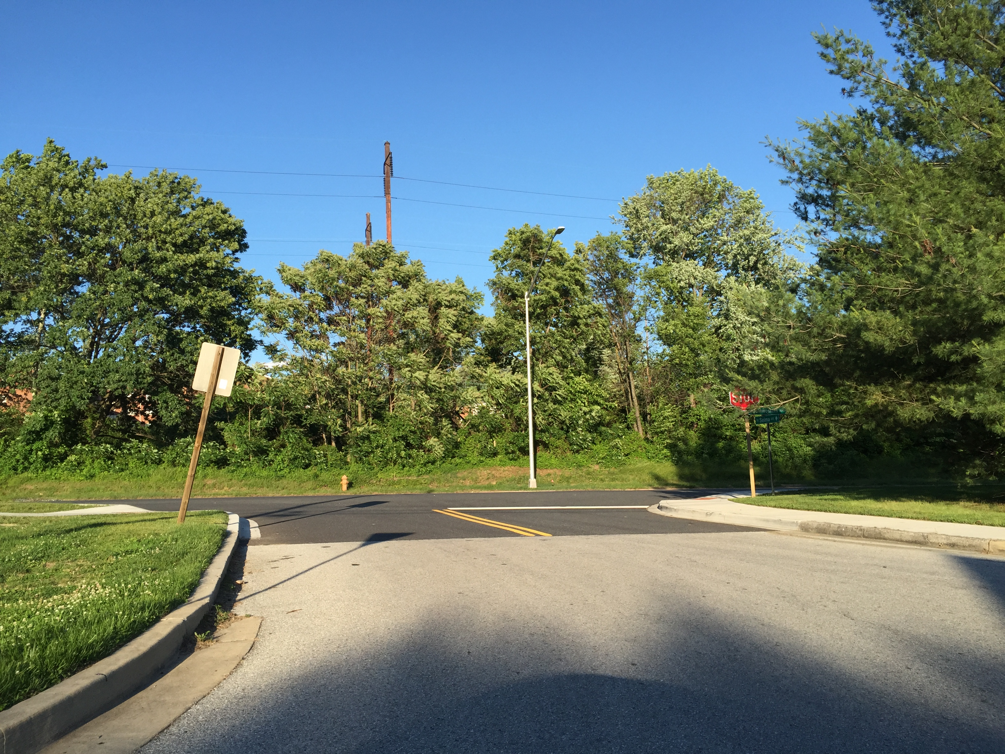 View east along Maryland State Route 644 (Selma Avenue Spur) just west of U.S. Route 1 (Southwestern Boulevard) in Arbutus, Baltimore County, Maryland